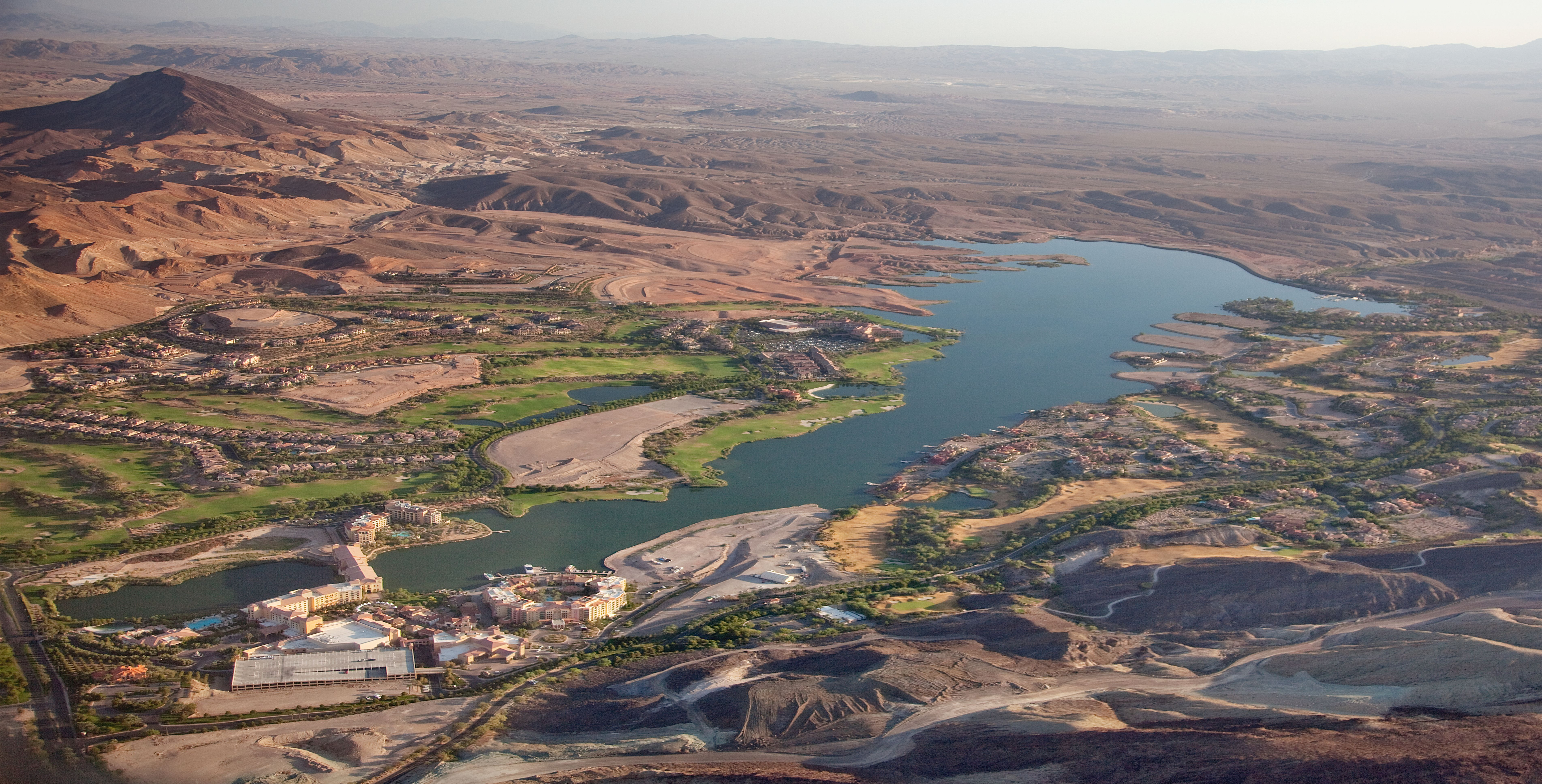 Aerial view of Lake Las Vegas